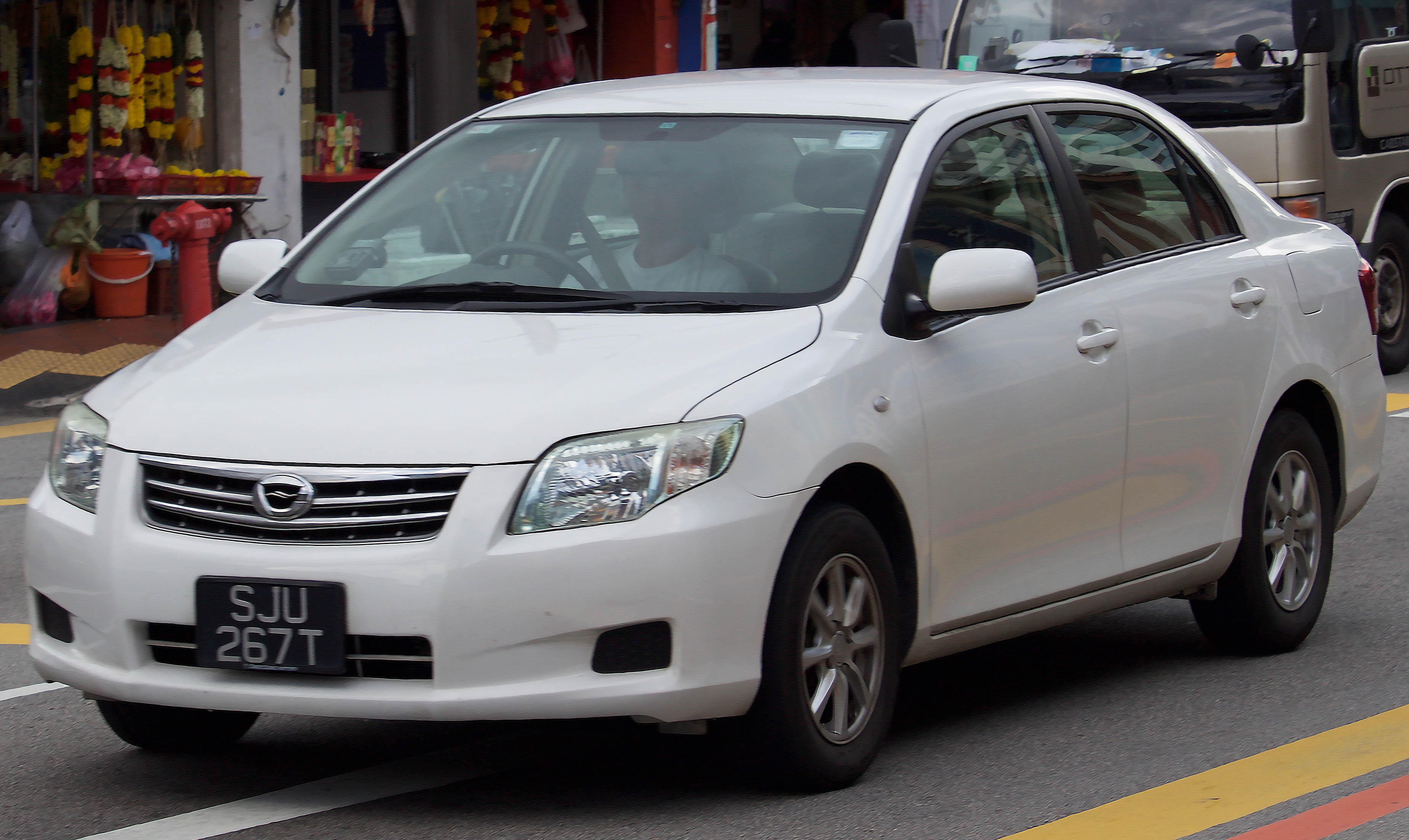 2008 Toyota Corolla Axio (NZE141) 1.5X sedan. Photographed in Singapore. Vehicle registration enquiry resultsJurisdictionSingaporeRegistrationSJU267TChassis codeNZE1416110708Engine code1NZD336321Year of manufacture2008